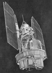 A sketch of the the Earth Resources Technology Satellite-1, later renamed Landsat 1.